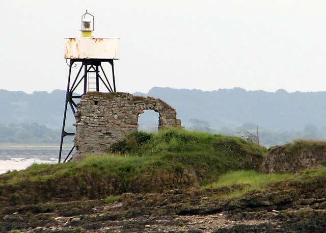 Beachley Point light and the ruin of St Twrog's Chapel on Chapel Rock, Beachley, Gloucestershire